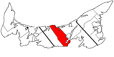 Adapted from existing Prince Edward Island election results maps to depict a specific electoral district.